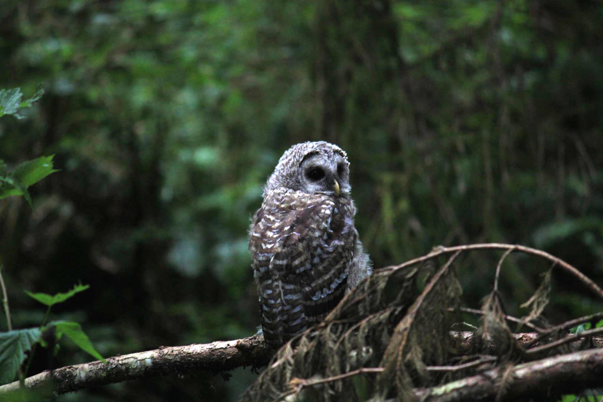 Juvenile barred owl in Poulsbo, Washington, USA